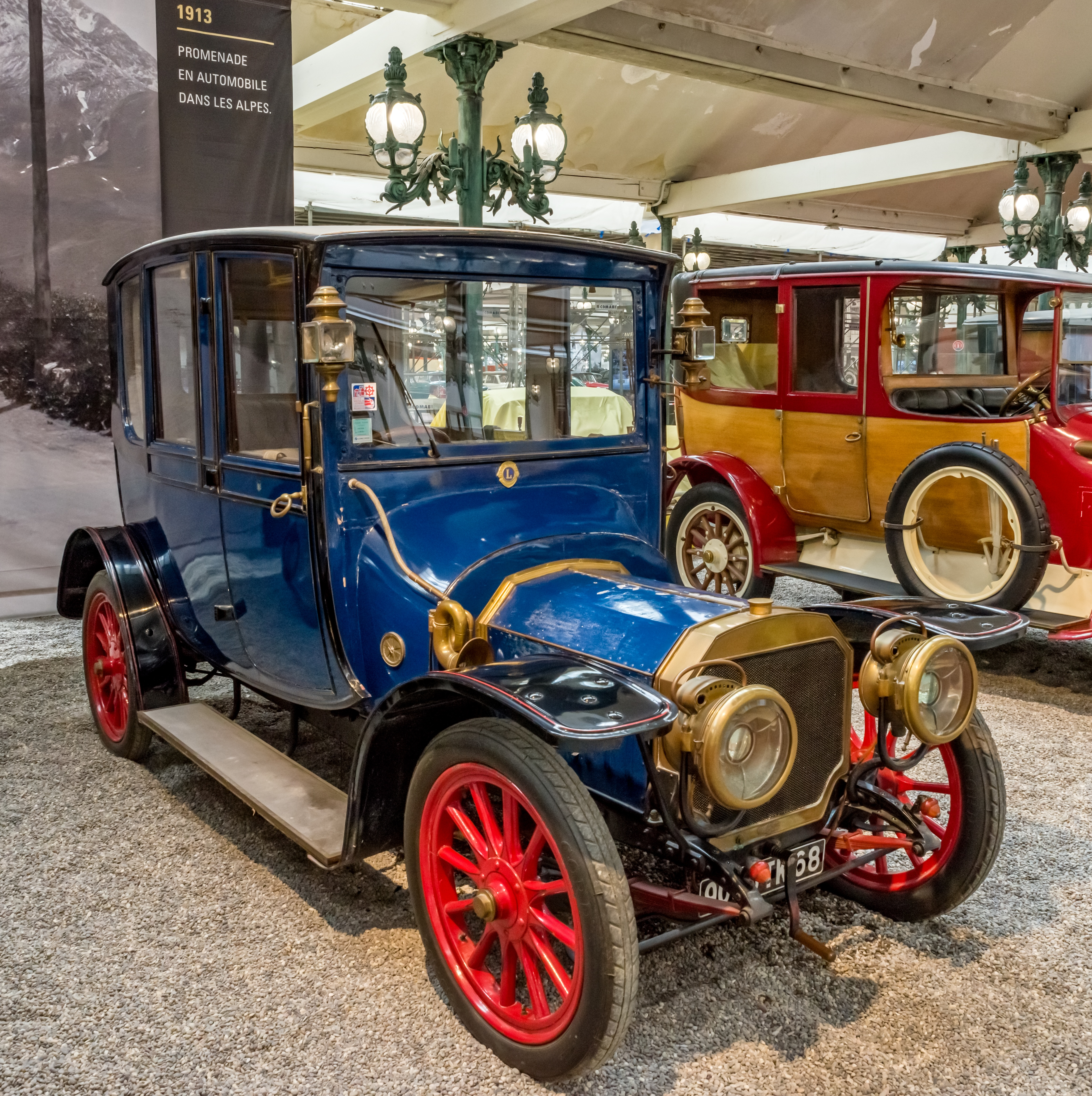 pictures from the Cité de l’Automobile – Musée National – Collection Schlump in Mulhouse, France ptictures from the 10. may 2018 Panhard & Levassor automobiles